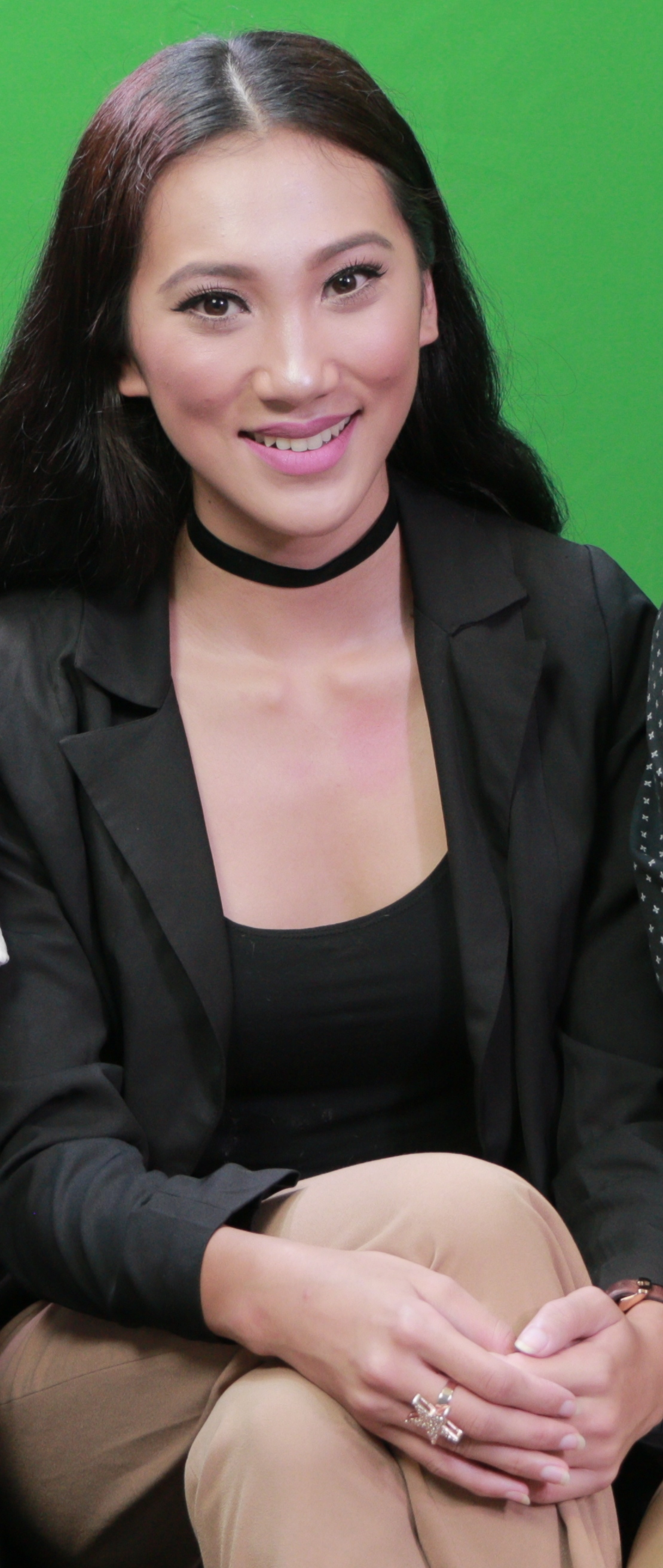 Paramita Rana on The Highights Show